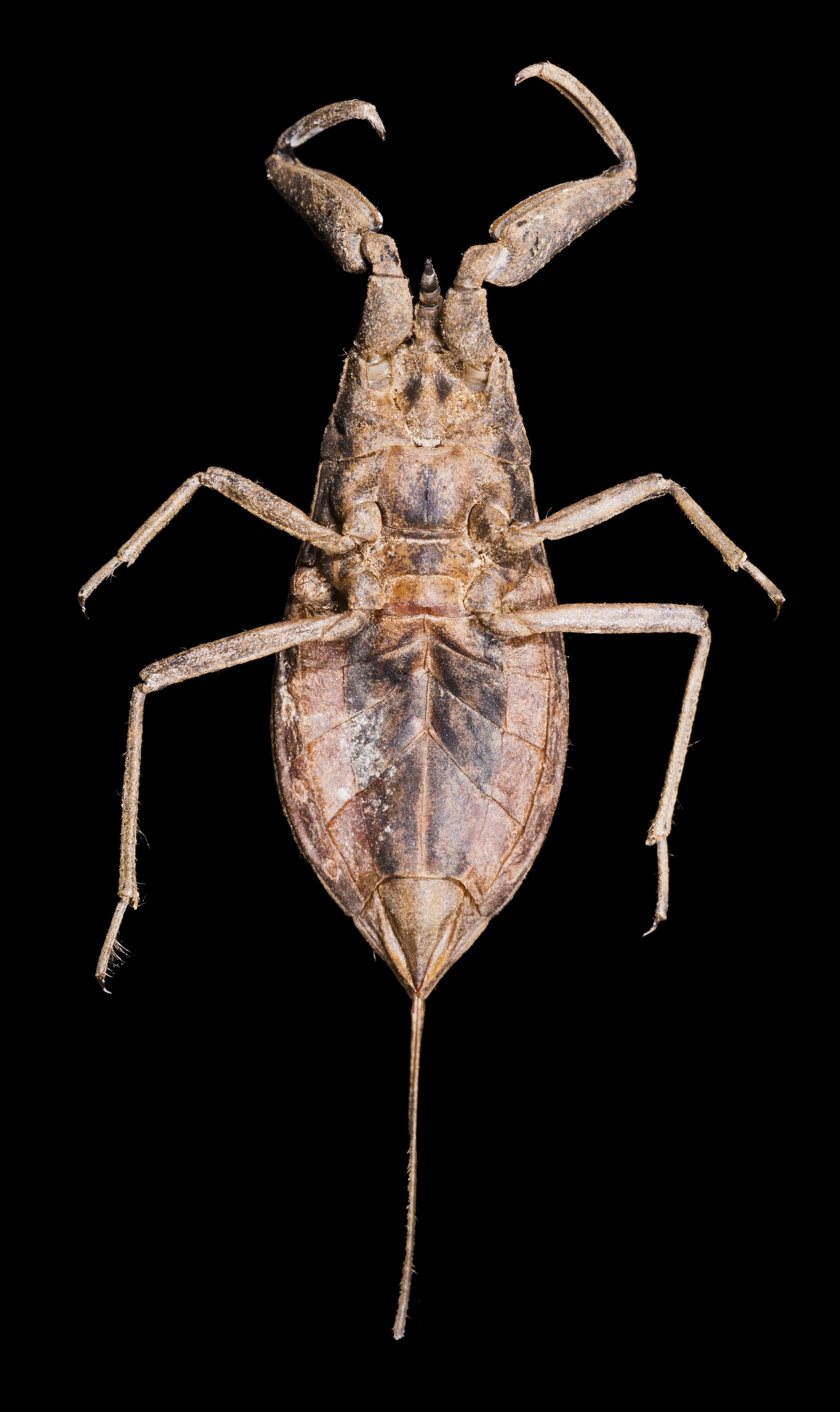 Water scorpion. Ventral side.